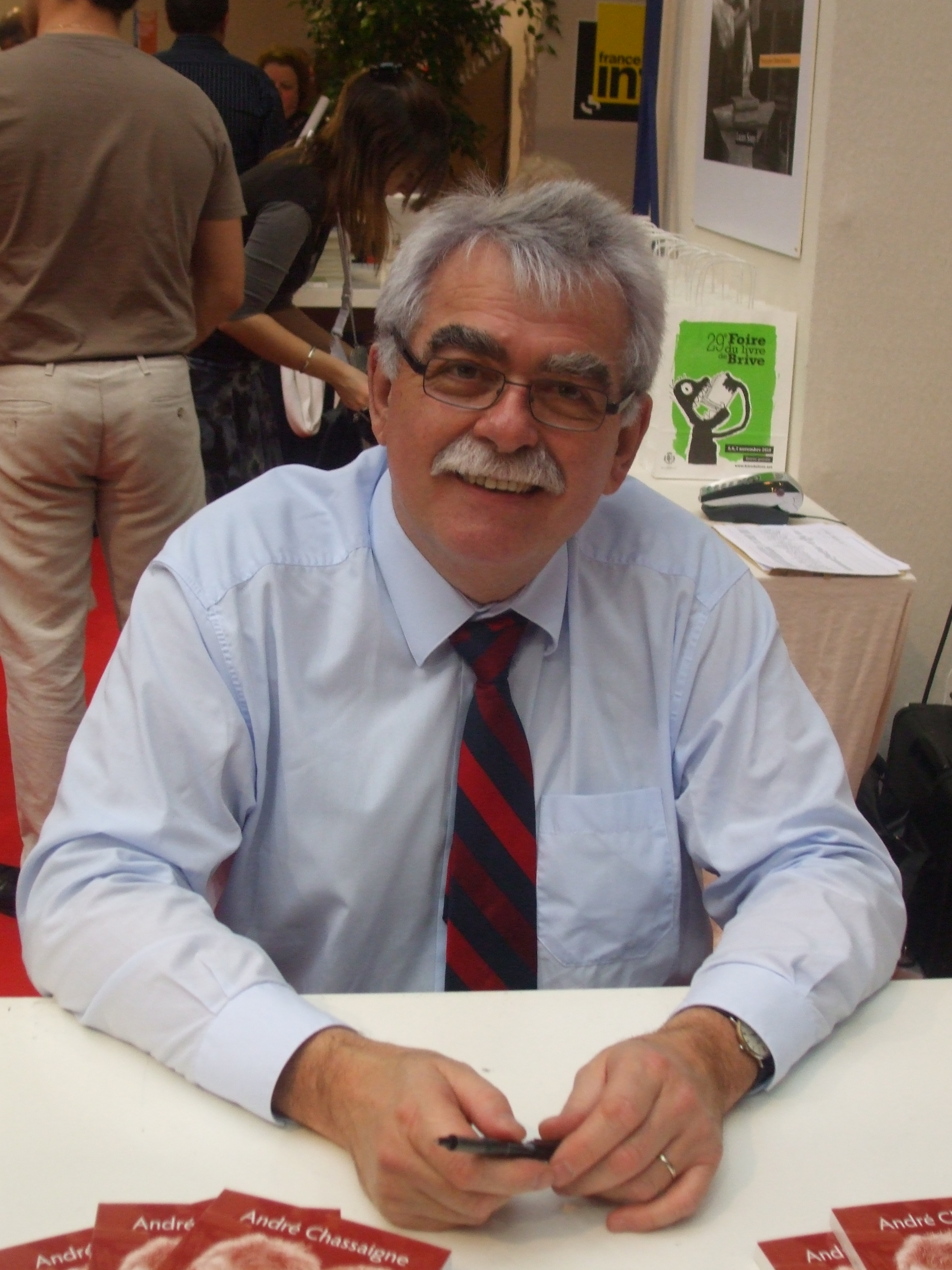 André Chassaigne,Puy-de-Dôme representative (french communist party),Brive la Gaillarde book fair, France, 2010 11 05